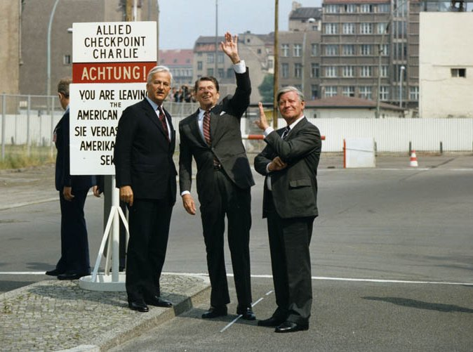 C8632-25A, President Reagan stands with Chancellor Helmut Schmidt and Berlin Mayor Richard von Weizsaecker at “Checkpoint Charlie” at the Berlin Wall. 6/11/82.